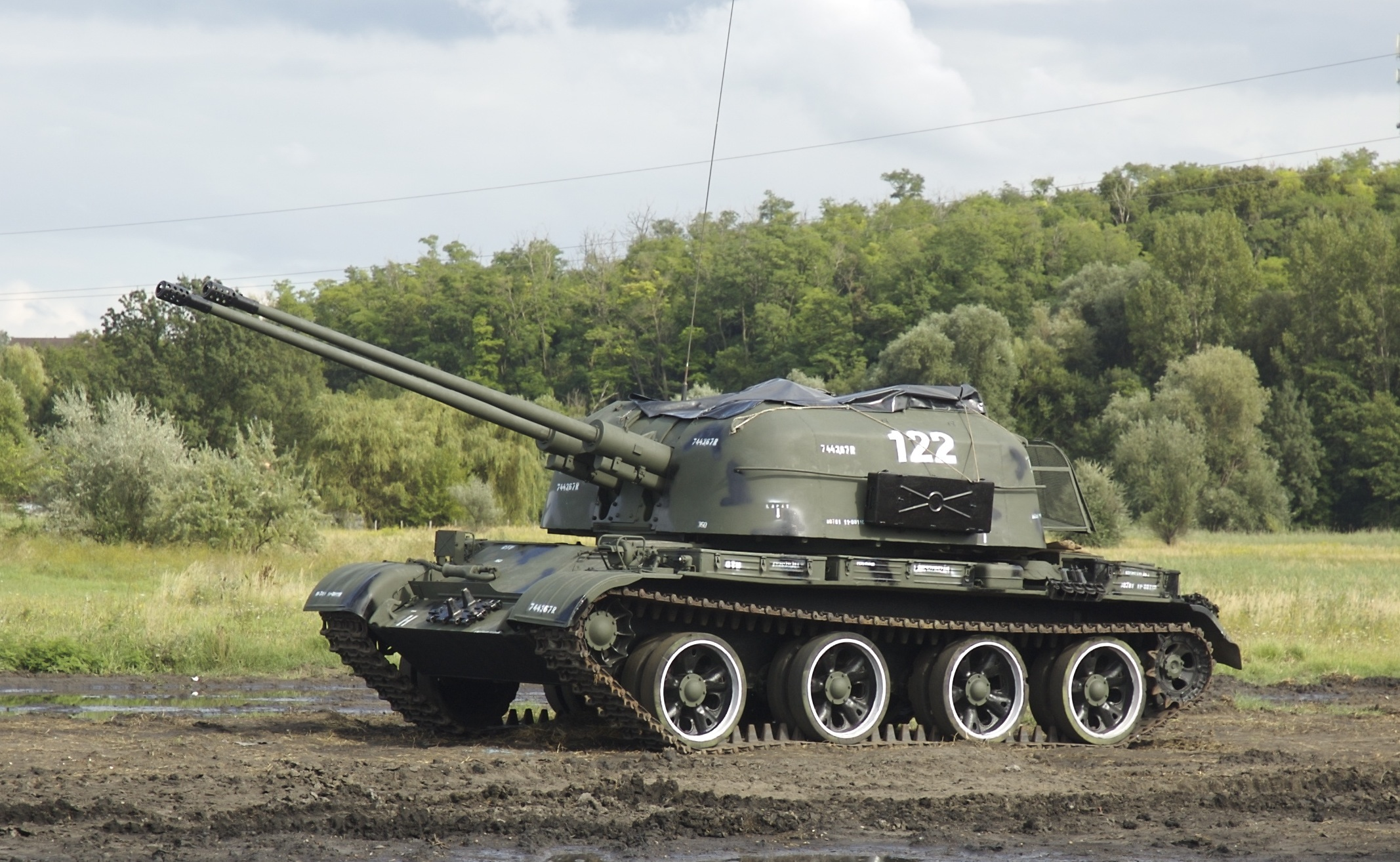 ZSU-57-2 Soviet self propelled anti-aircraft gun